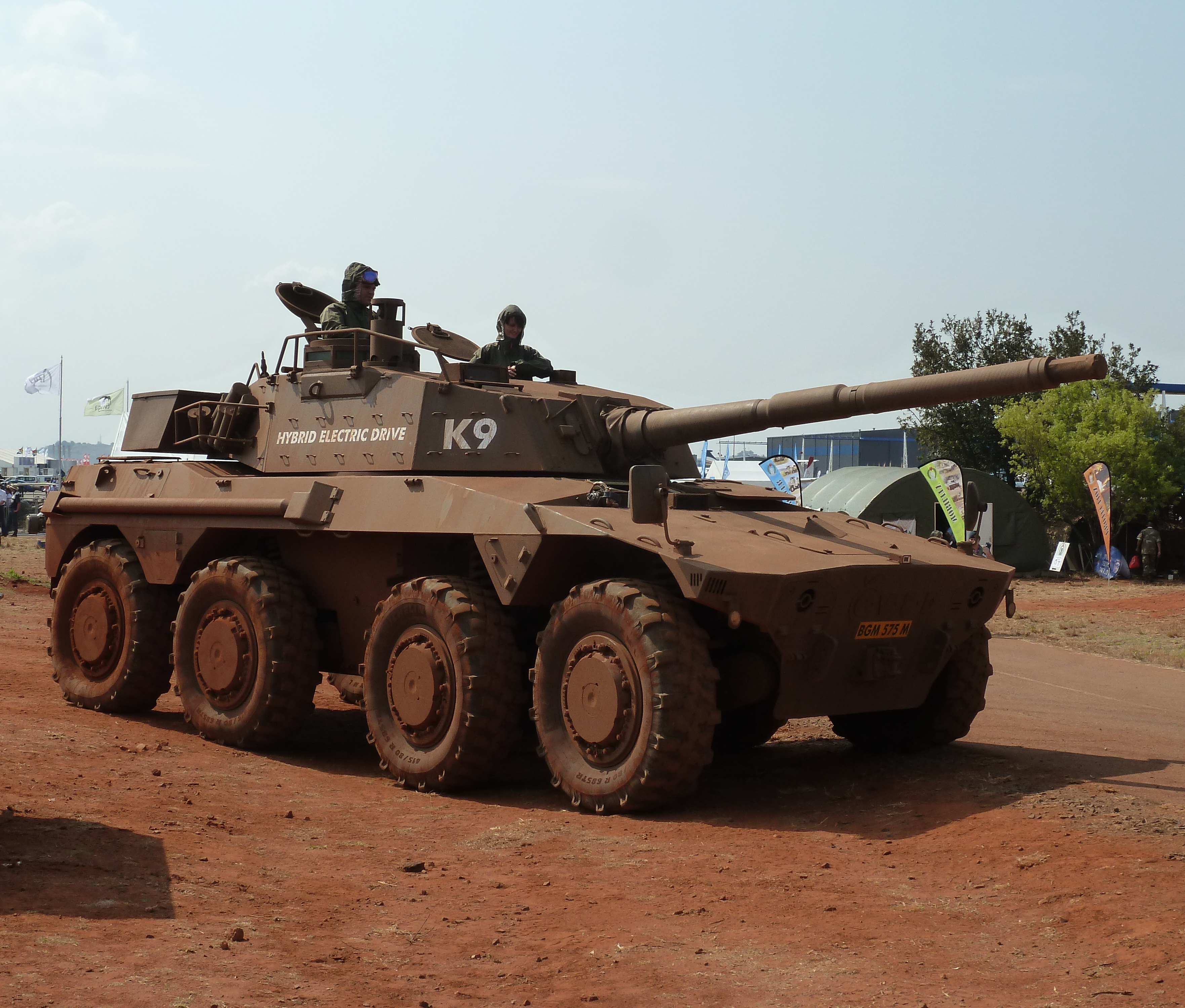 Rooikat with hybrid electric drive at Waterkloof AFB, waiting to depart on short demonstration circuit